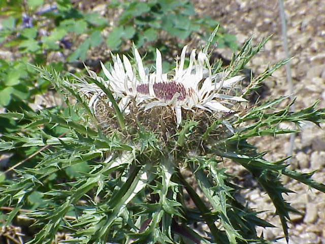 Species: Carlina acaulis Family: Compositae Image No. 2